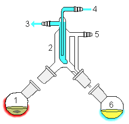 Short path distillation apparatus